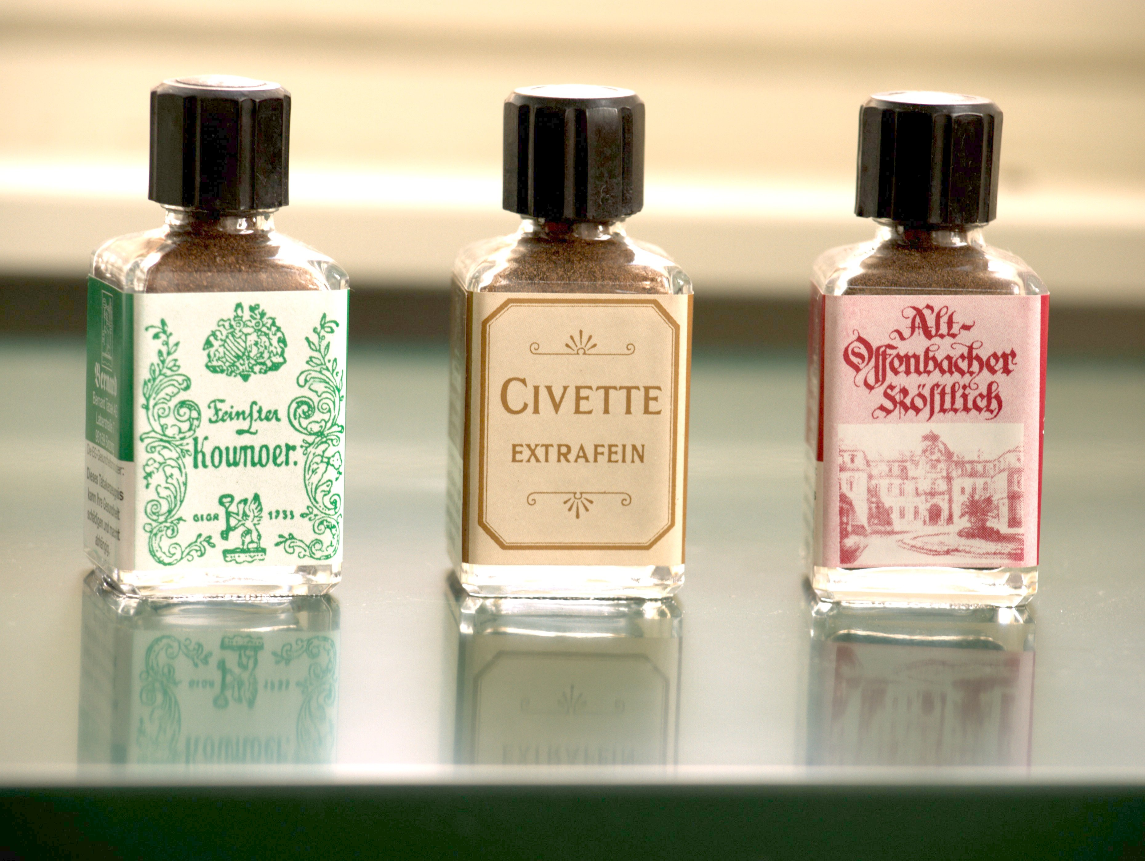 Some of the most traditional snuffs that ware produced by Bernard Tabak AG in Sinzing, Germany.